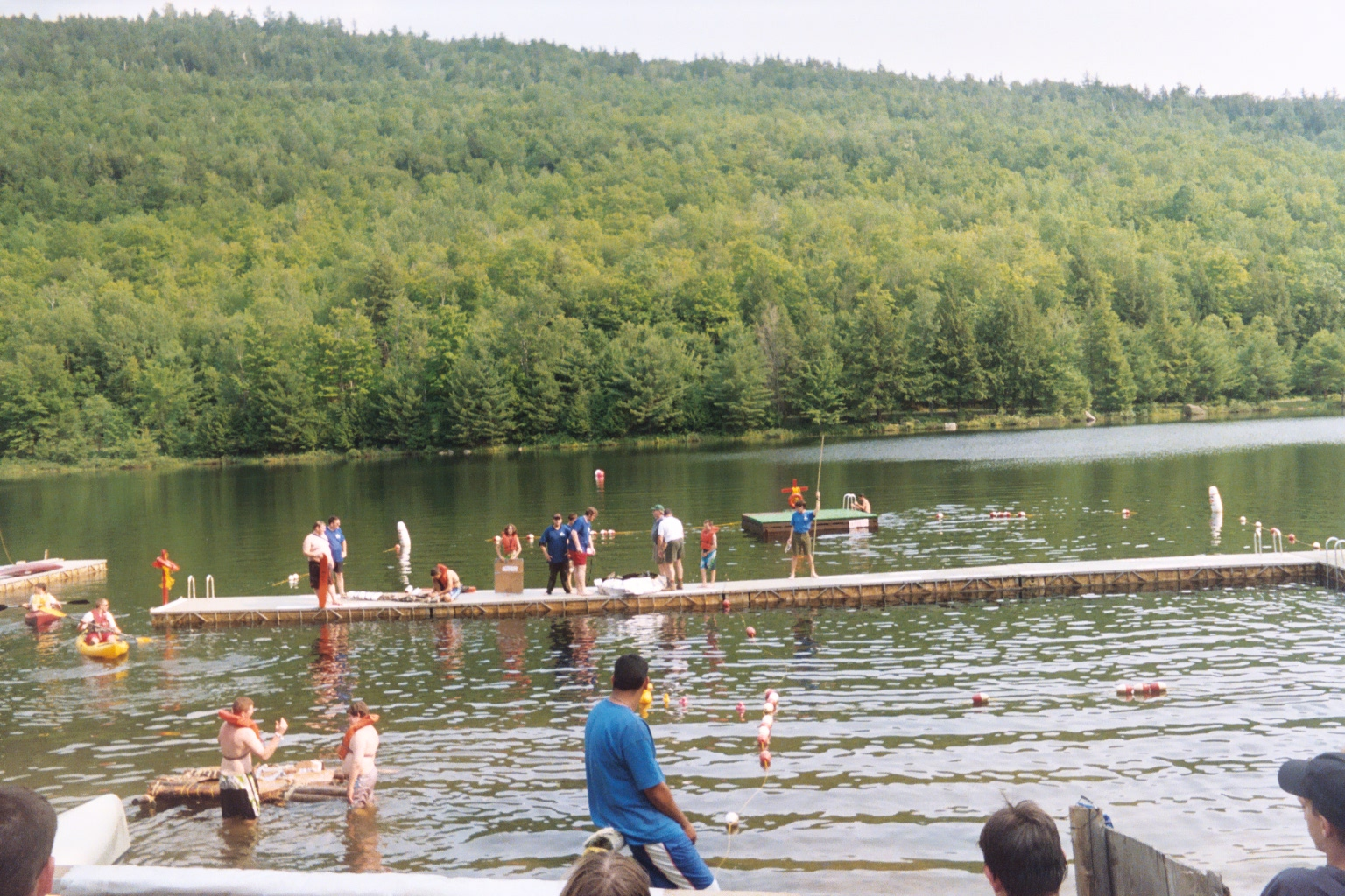 A boat race taking place on Waubeeka Lake at the Boy Scouts of America's Camp Waubeeka at the Curtis S. Read Scout Reservation, Brant Lake, New York.